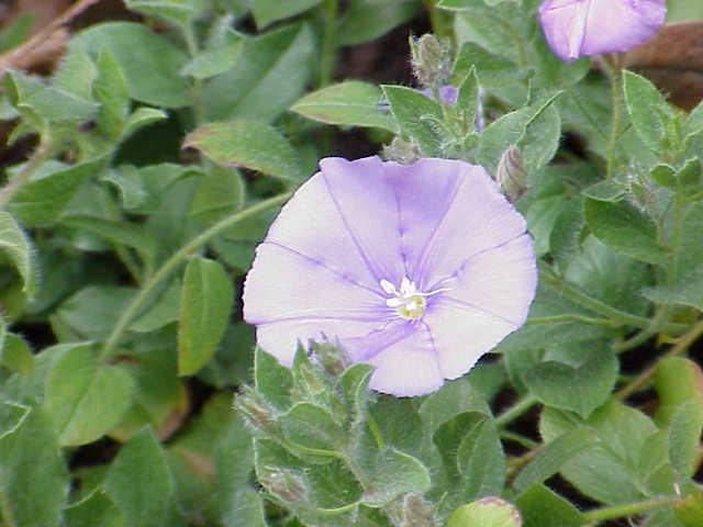 Species: Convolvulus sabatius Family: Convolvulaceae Image No. 3